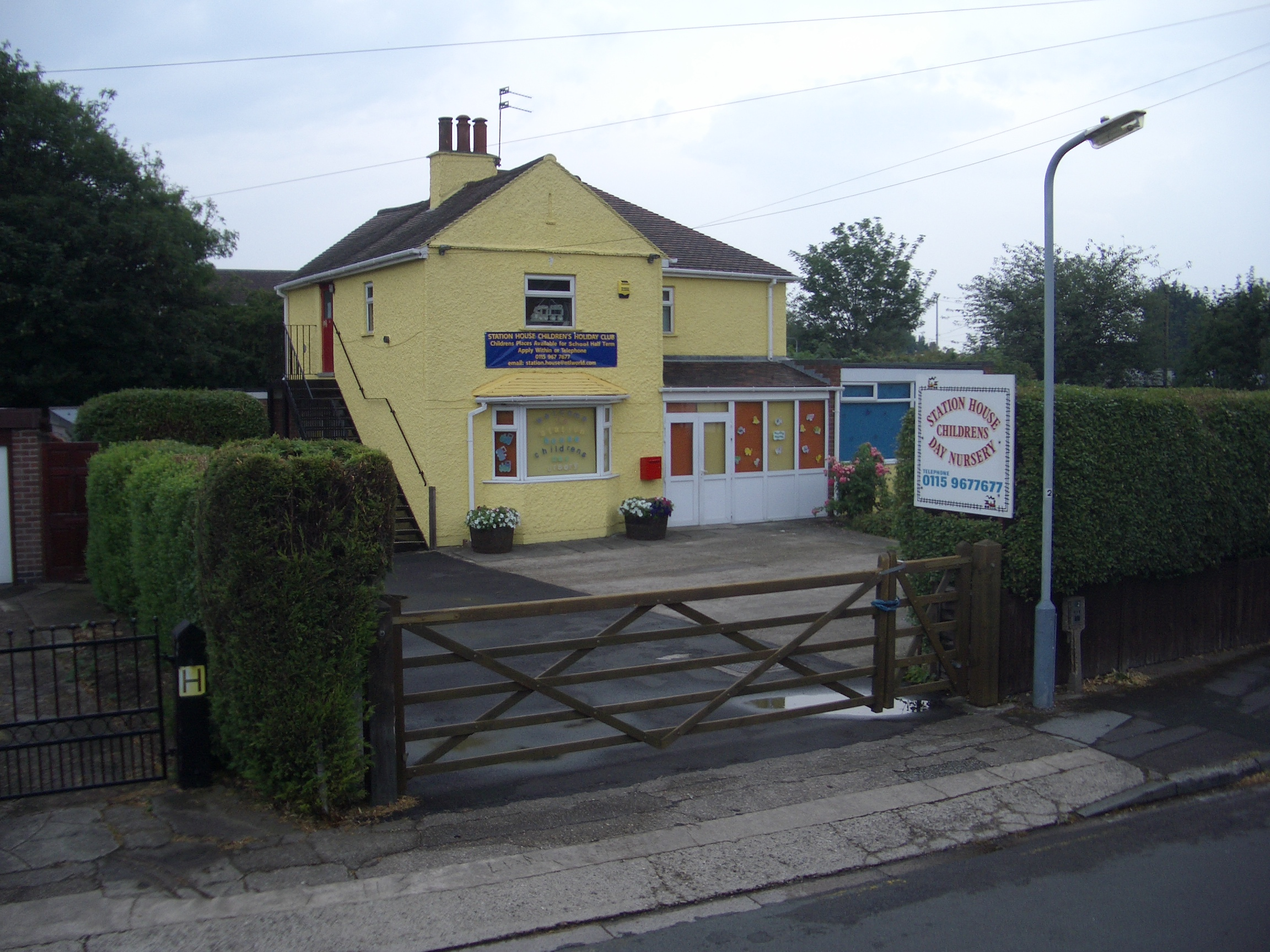 Old Station Masters House, Beeston, Nottinghamshire